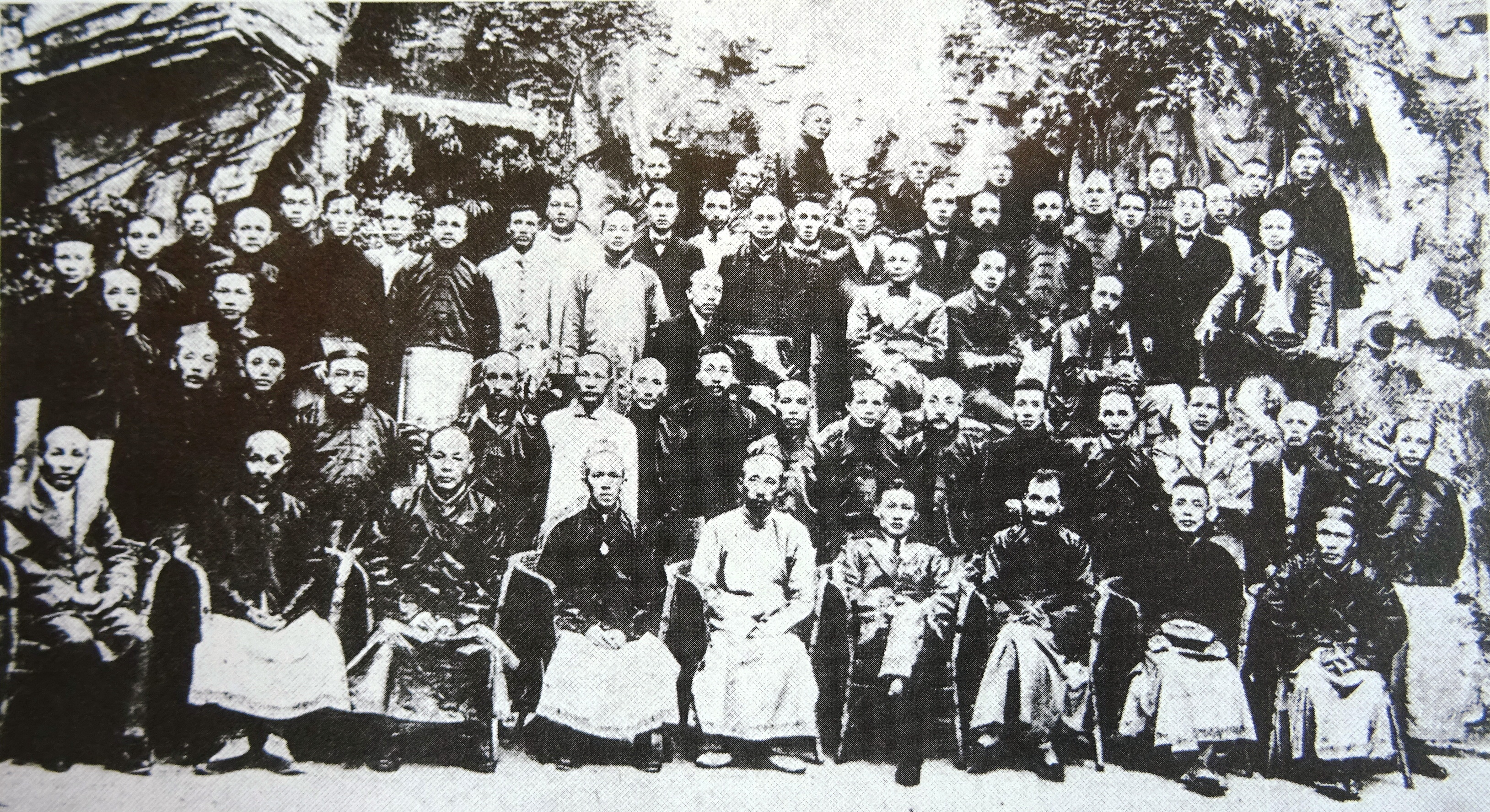 Some of the 85 elected county magistrates in Kwangtung in 1921 under Chan Kwing Ming's administration. 粵語: 1921年8月陳炯明喺廣東推行民選縣長，到11月選出85位縣長。相係部分當選嘅縣長合影。